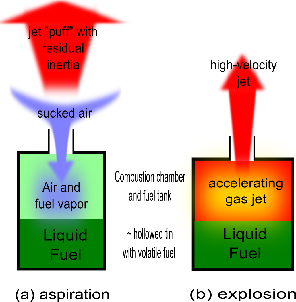 This is one of the simplest forms of pulsed jet engine.